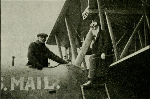 Ox-team pioneer Ezra Meeker (1830-1928) tries an airplane